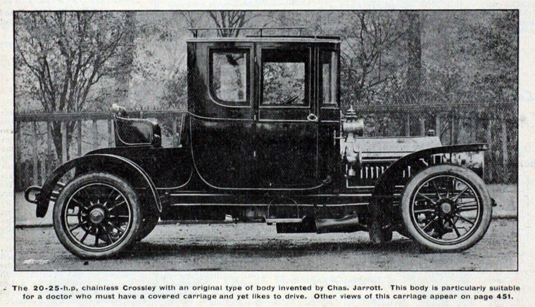 1906 Crossley 20-25 Doctor's Coupe. Designed by Charles Jarrott, of the make's London agents Charles Jarrott & Letts Co., it shows a very early application of a "dickey seat".